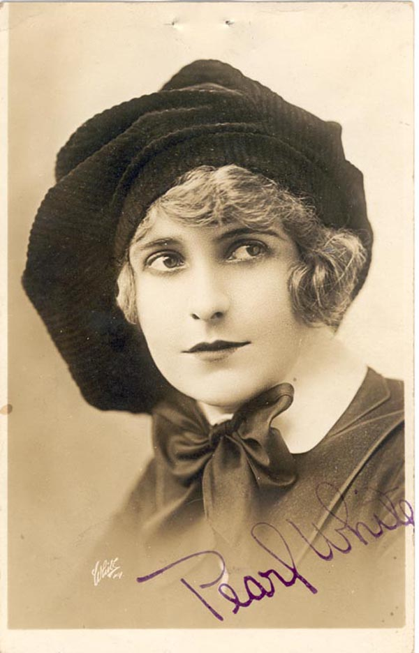 Advertisement in The Moving Picture World